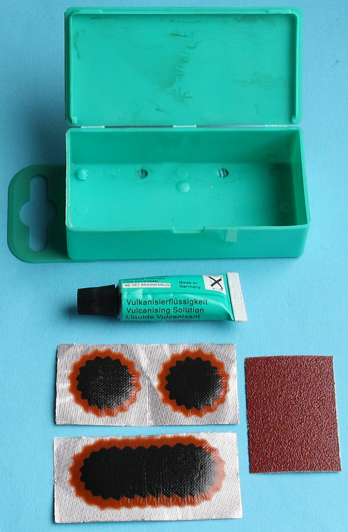 bicycle tube repair kit / puncture repair kit